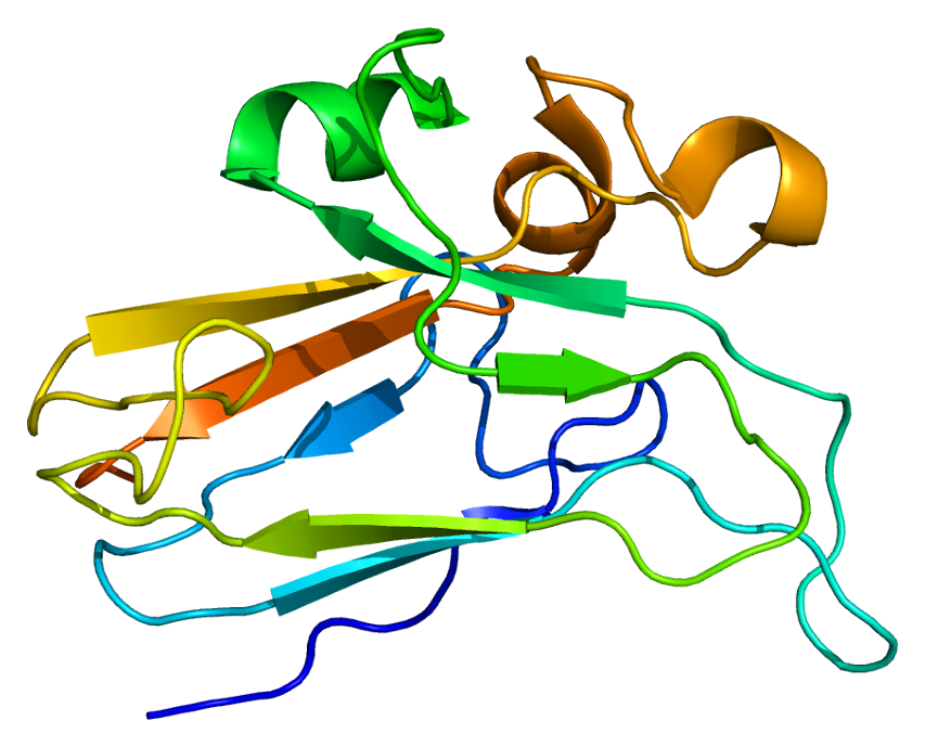 Structure of the EFNB2 protein. Based on PyMOL rendering of PDB 1iko.